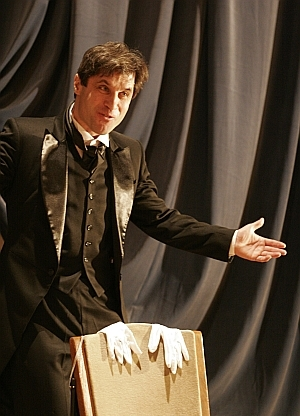 Michael Fica in one-person show «Predlojenie»